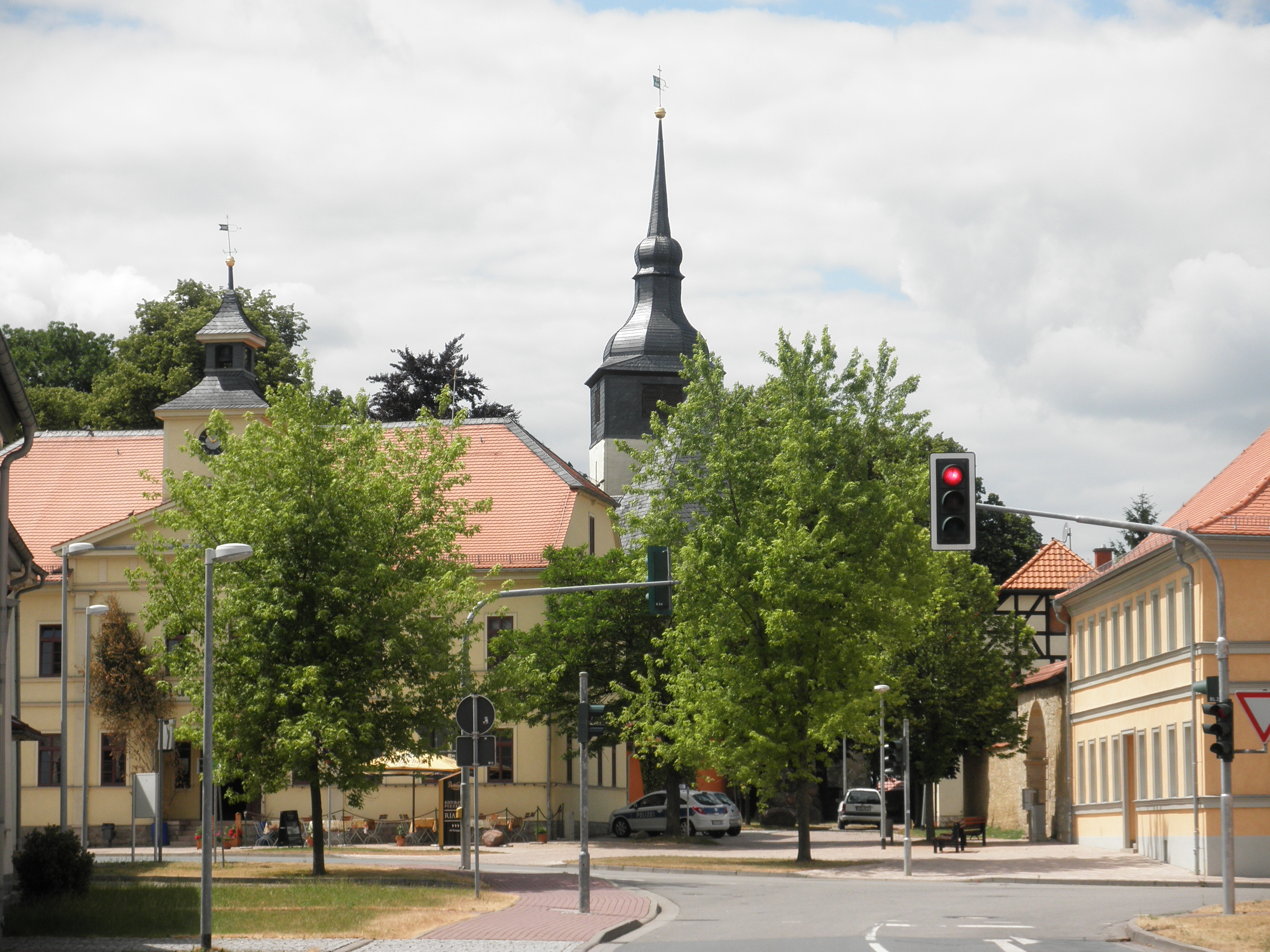 View to the Centre of Schloßvippach